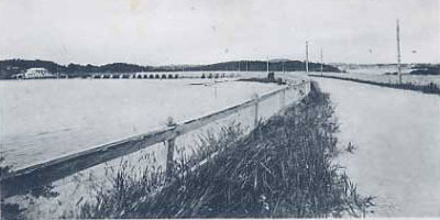 The Bermuda Causeway, as it existed in 1905